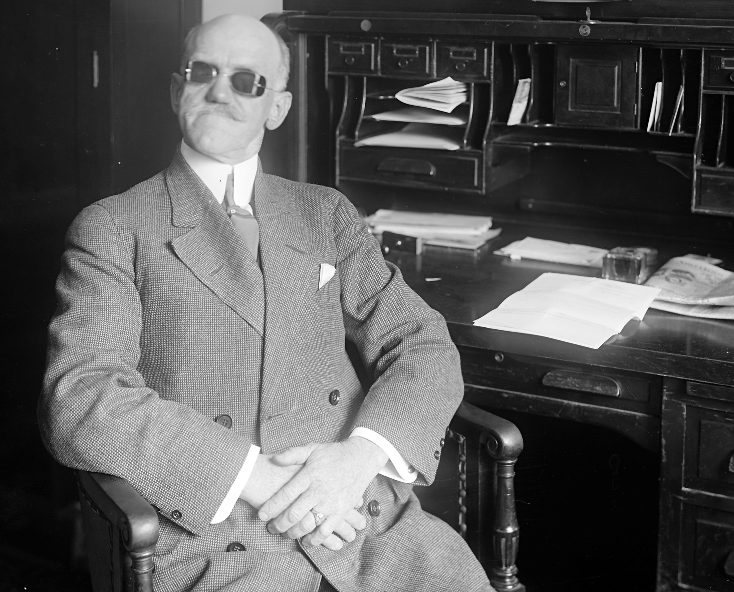 Paul G. McCorkle, US Representative from South Carolina